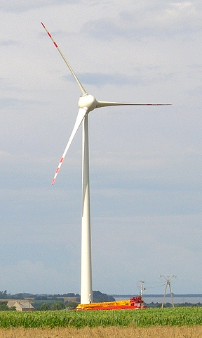 New wind power station in Połczyno near Puck, summer 2006 (E48 wind turbine in Polczyno, built by WIATROPOL INTERNATIONAL Gdańsk) Autor: Krzysztof